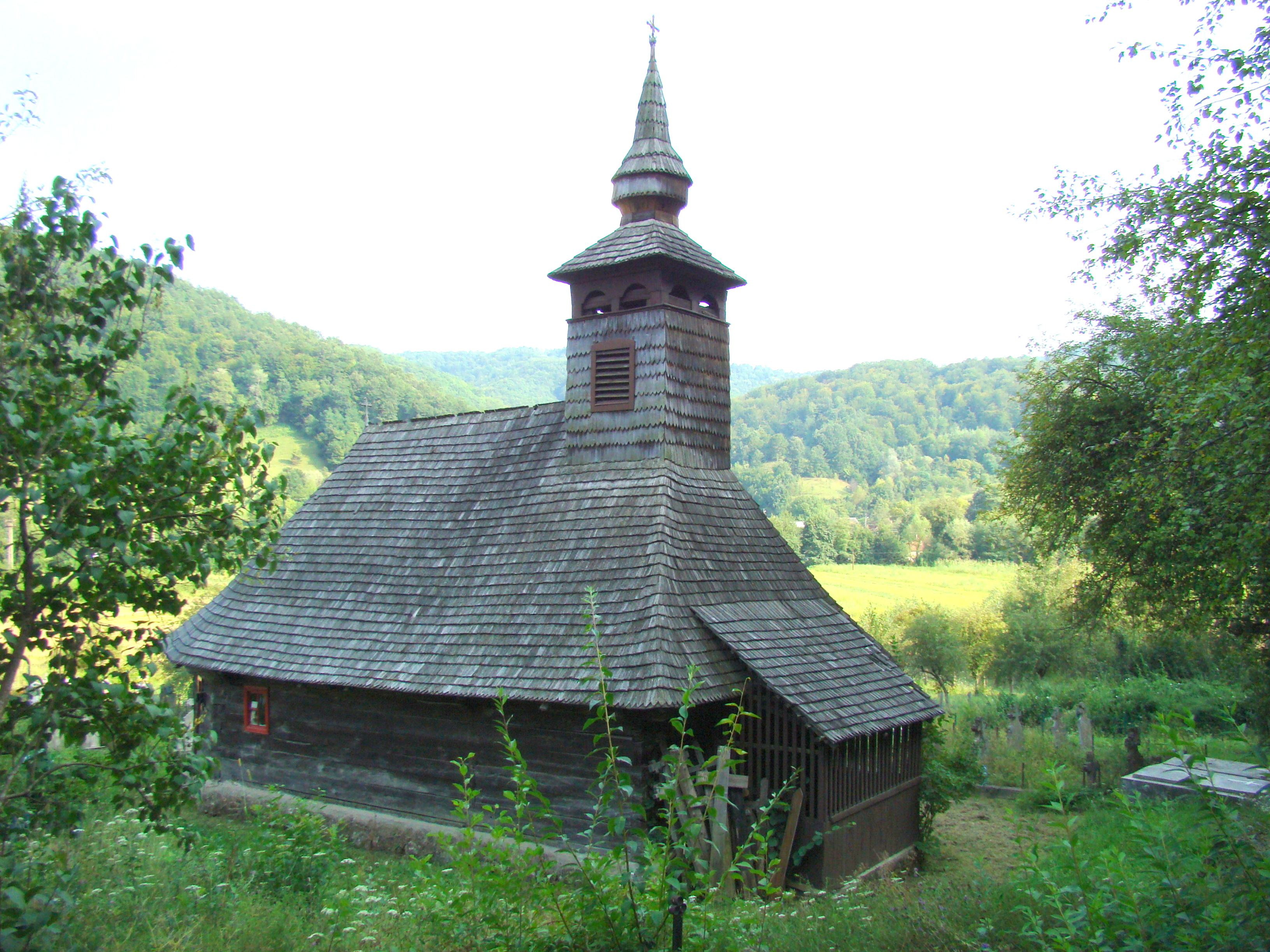 wooden Orthodox church in Cerbia village, Hunedoara County, RomaniaRomână: Biserica de lemn din Cerbia-Hunedoara